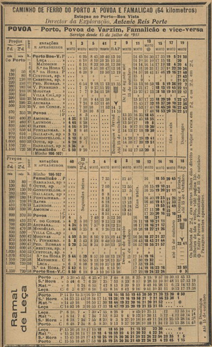 Timetables of the trains in the Linha do Porto à Póvoa e Famalicão (Porto to Póvoa and Famalicão Railway) and its Matosinhos Branch Line, in Portugal, on the 15th July 1913. This image was published on the Guia Official dos Caminhos de Ferro de Portugal No. 168, of October 1913, and scanned by the Biblioteca Nacional de Portugal.